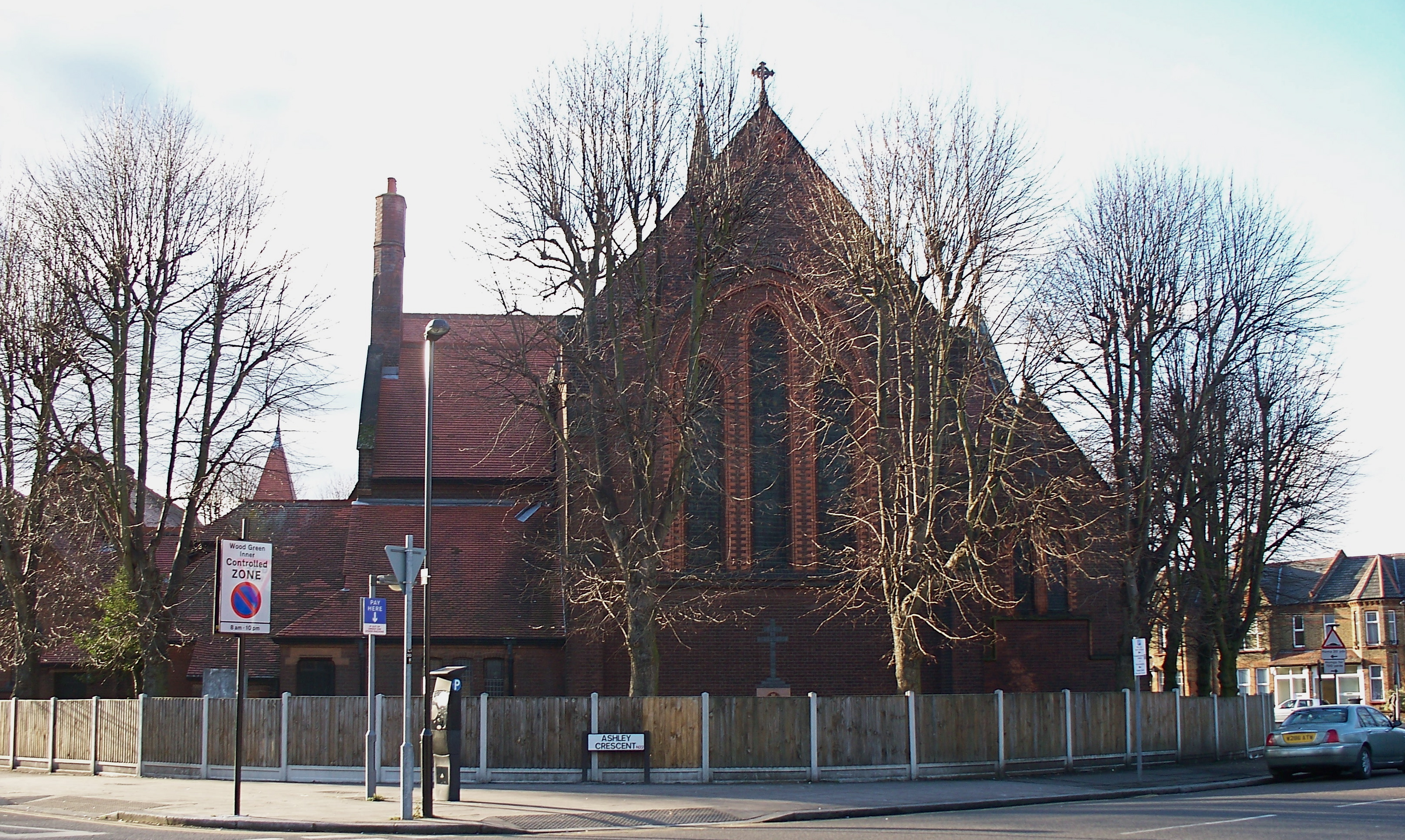 Noel Park, London N22. Photograph taken in a public location in the UK of a building on permanent public display, and exempt from copyright under Section 62 of the Copyright Designs & Patents Act 1988 ("it is not an infringement of copyright to film, photograph, broadcast or make a graphic image of a building, sculpture, models for buildings or work of artistic craftsmanship if that work is permanently situated in a public place or in premises open to the public")